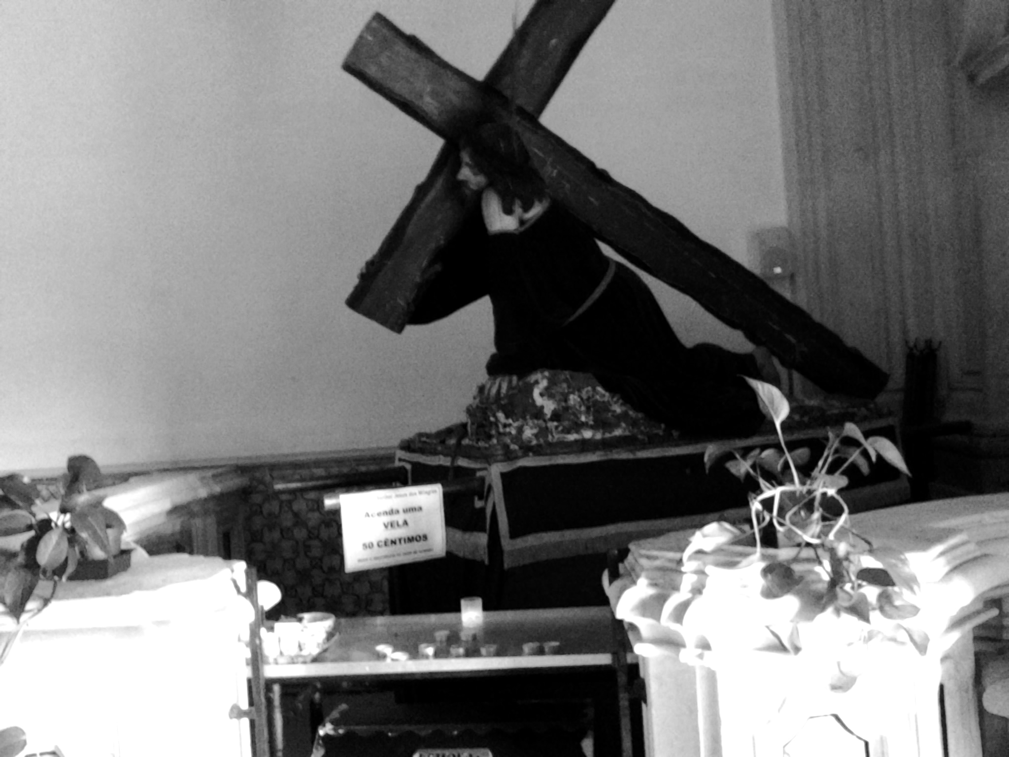 Cross in the entrance of Santuário dos Milagres